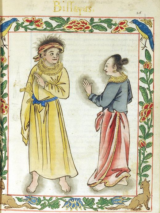 An illustration of Visayan Nobles in the Boxer Codex